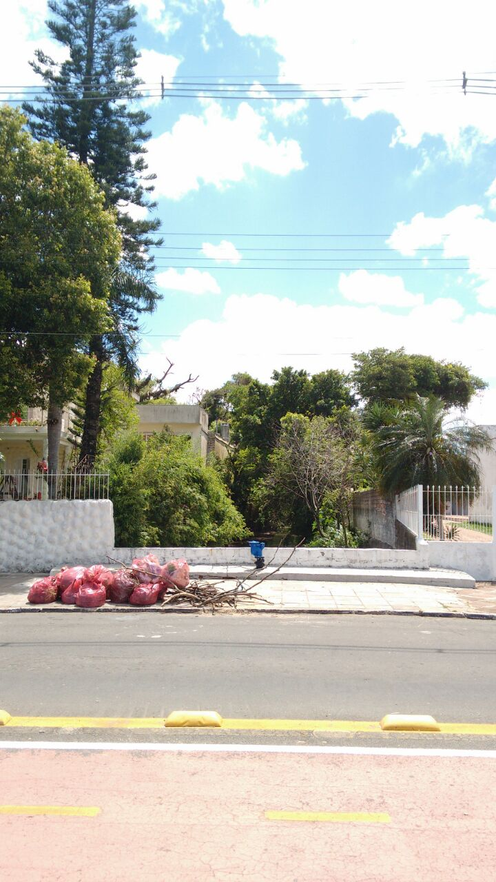 Capivara River (Arroio Capivara in Portuguese) seen from Guaíba Avenue, in Ipanema, Porto Alegre, Brazil.